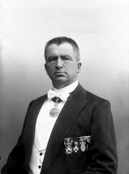 Yngvar Nielsen (1843–1916), Norwegian historian and politician. Photo in collection of Oslo Museum via DigitaltMuseum.